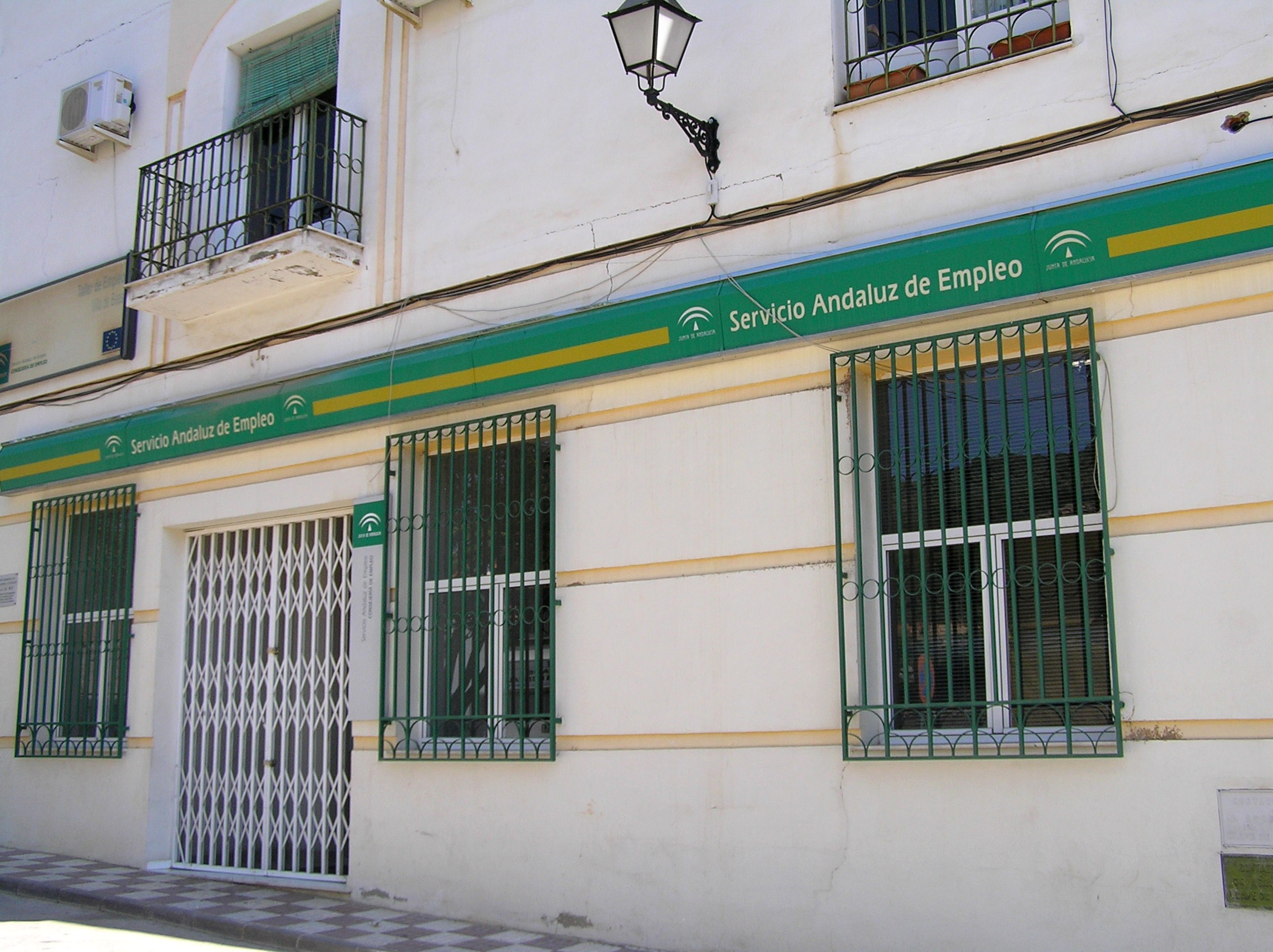 Servicio Andaluz de Empleo